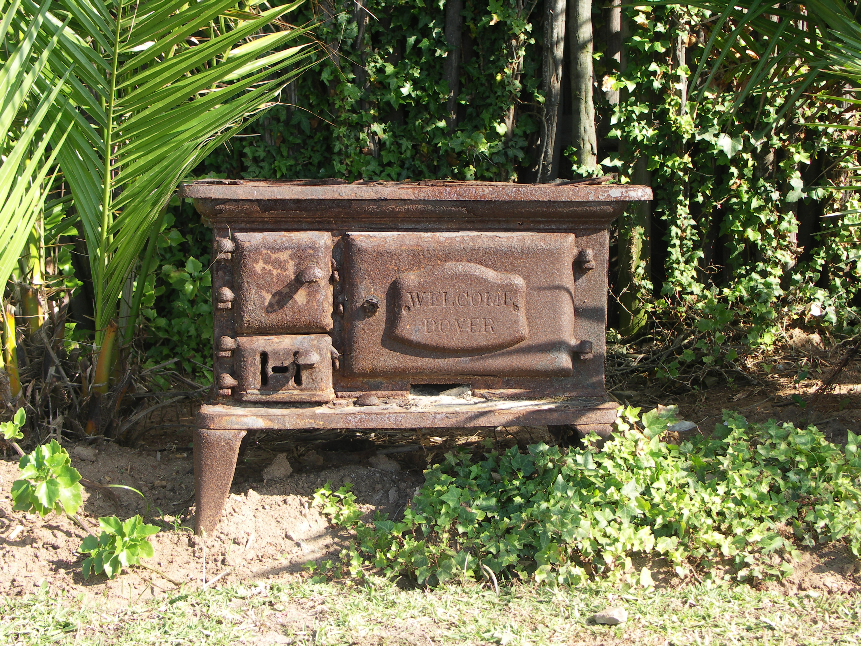 A disused and rusting Welcome Dover coal/wood burning stove. These were in common use in South Africa during the early 20th century